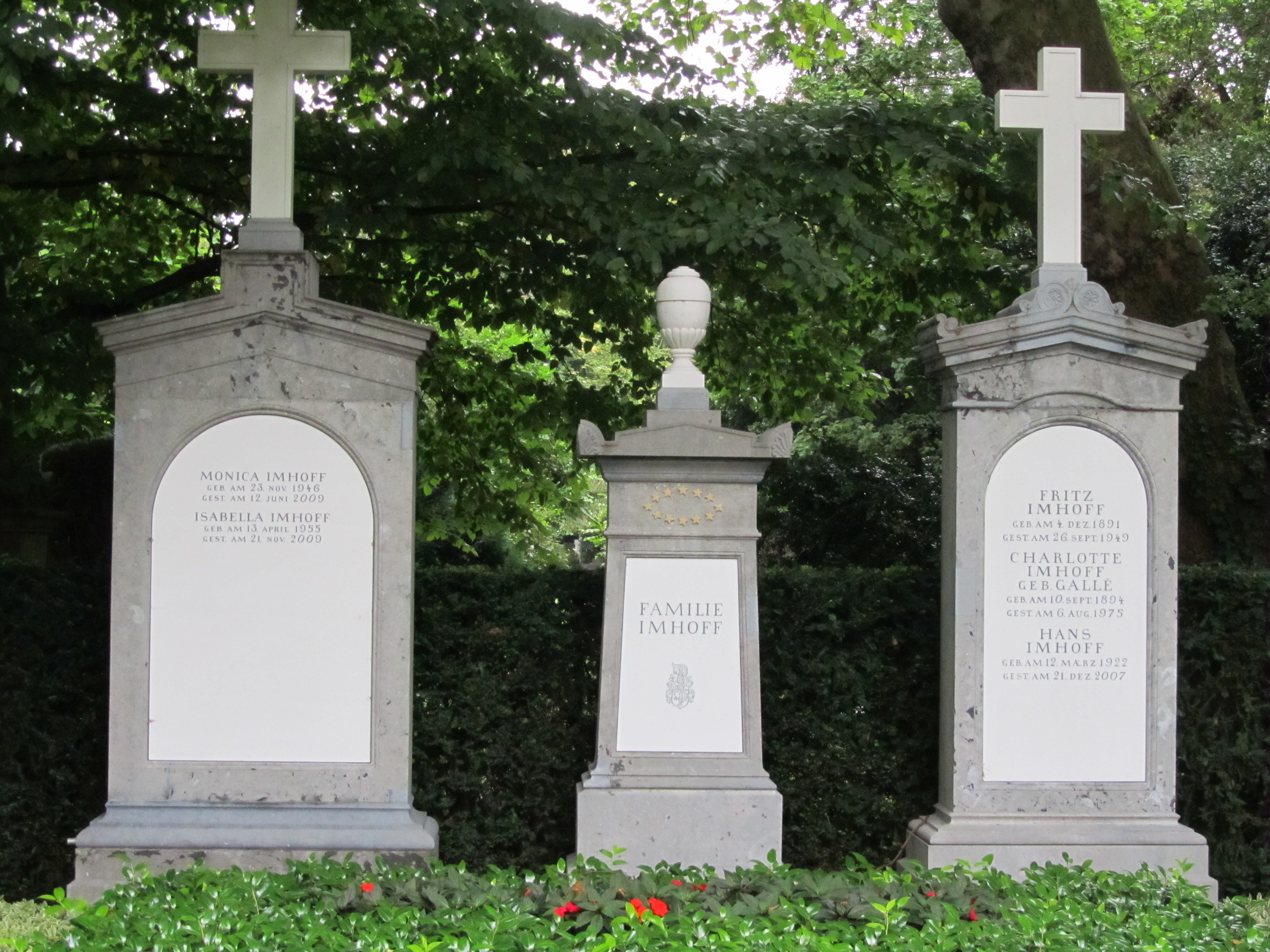 grave of the Imhoff family on the Melaten cemetery in Cologne